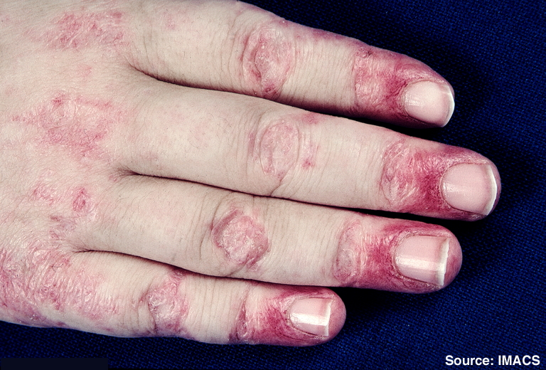 Dermatomyositis, Gottron's papules showing secondary atrophy and telangiectasia in a girl with severe juvenile dermatomyositis. These changes are seen in association with prominent periungual erythema, a cutaneous finding indicative of ongoing disease activity.